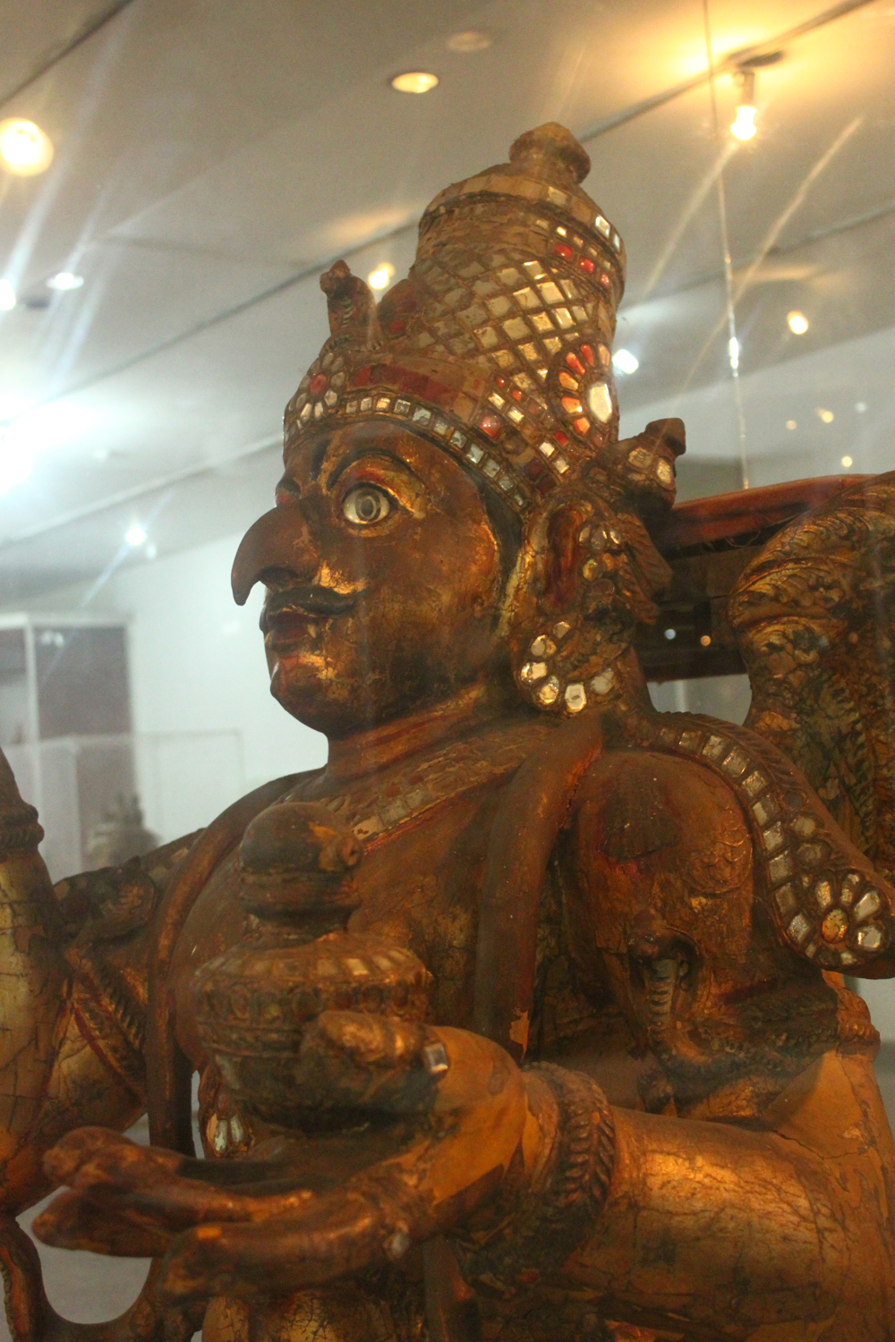 National Museum, New Delhi - Acc.No.70.51 South Indian Wood Carving, 19th Century